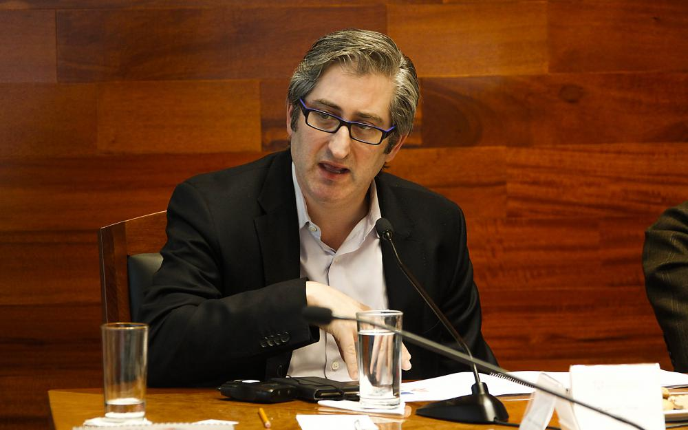 David Shrier speaking at the Asian Banker Summit 2017 in Singapore